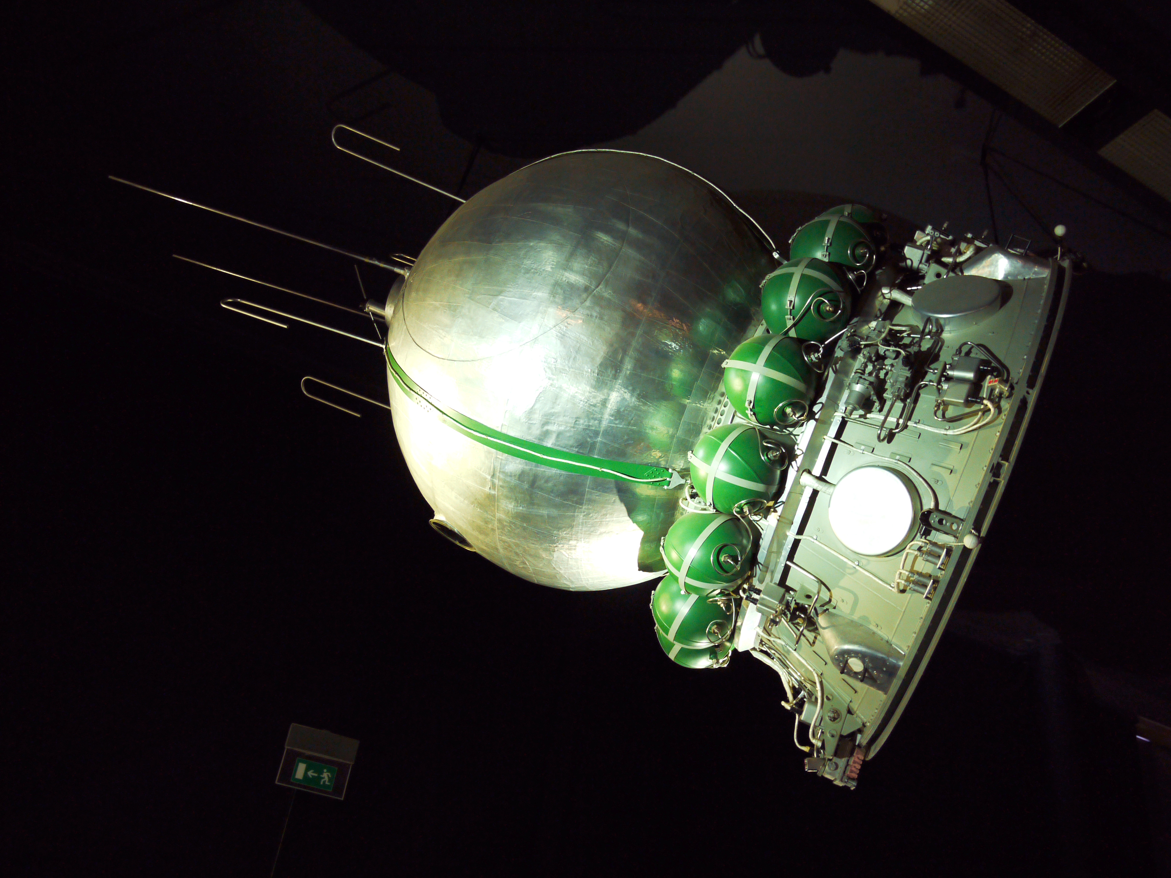 Mockup of the spacecraft Vostok-1 (1961), Museum of Air and Space Paris, Le Bourget (France)